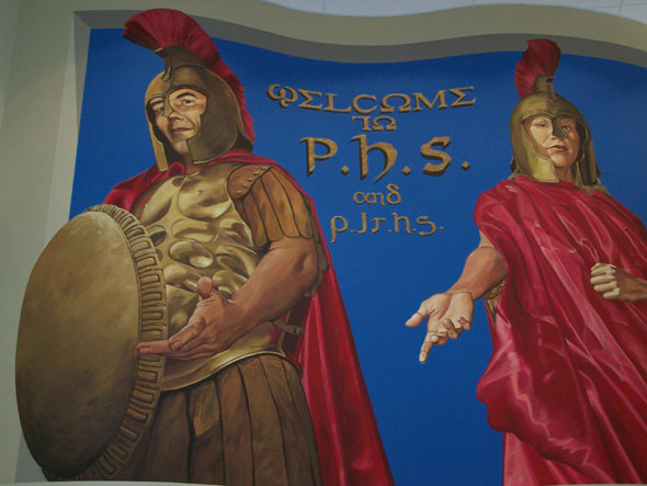 A 10ft by 30ft mural of the school mascot, the Trojans. Located in the lobby of the new Portsmouth High School by artist Herb Roe, a former student of the school.